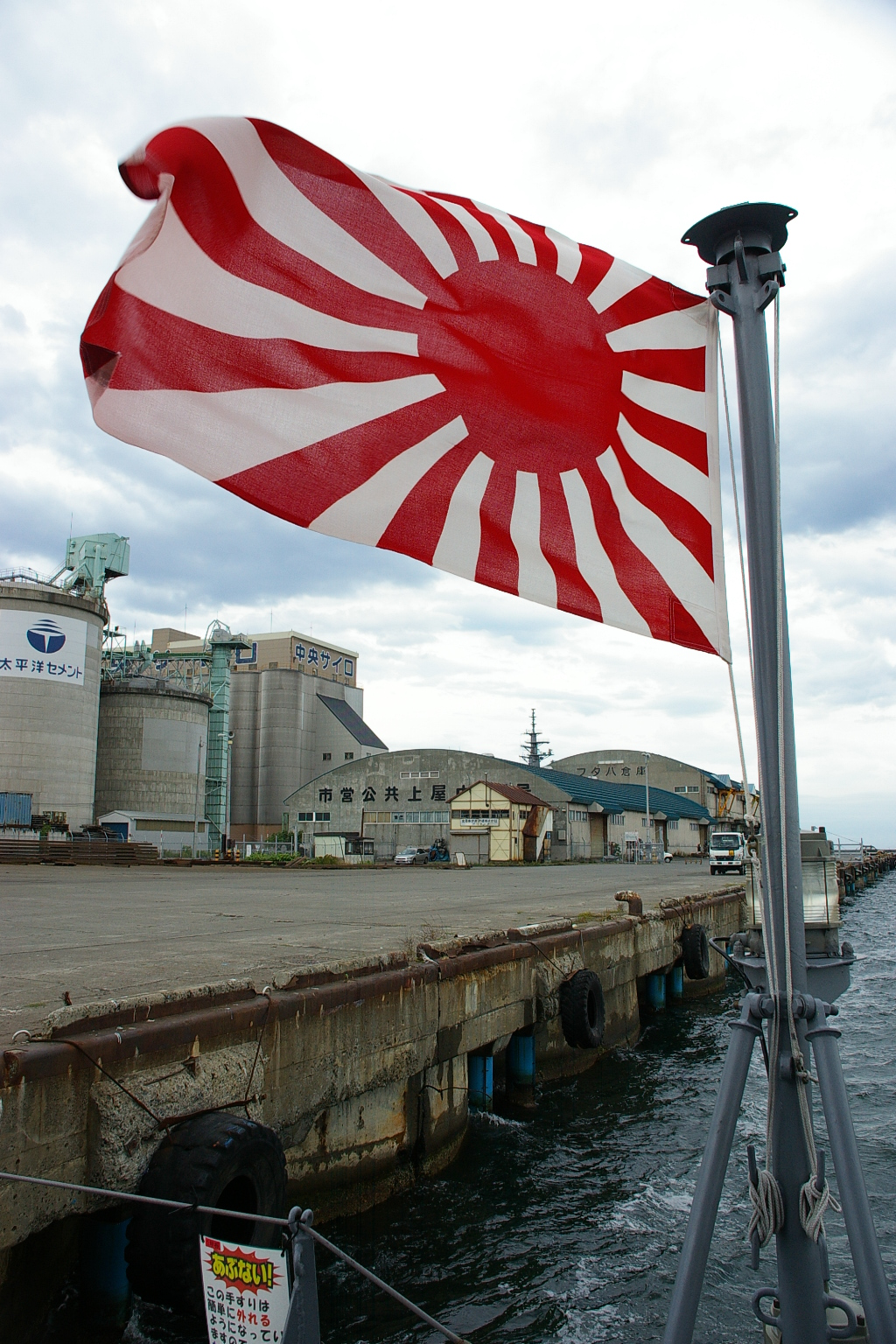 Flag of JMSDF on DD125 SAWAYUKI.